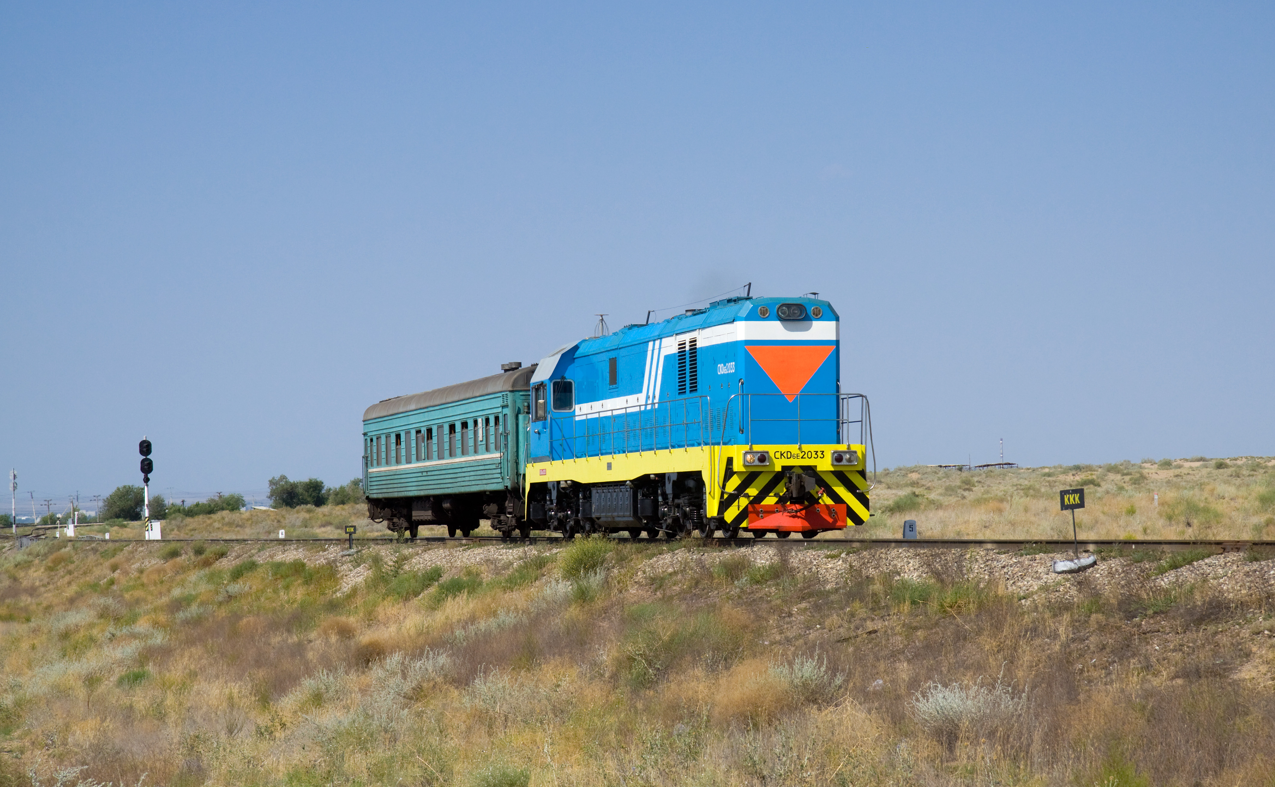 Kasachstan Temir Scholy class CKD6E between Kapchagay and Koskuduk, Kazakhstan. The train is a local service running every other day.